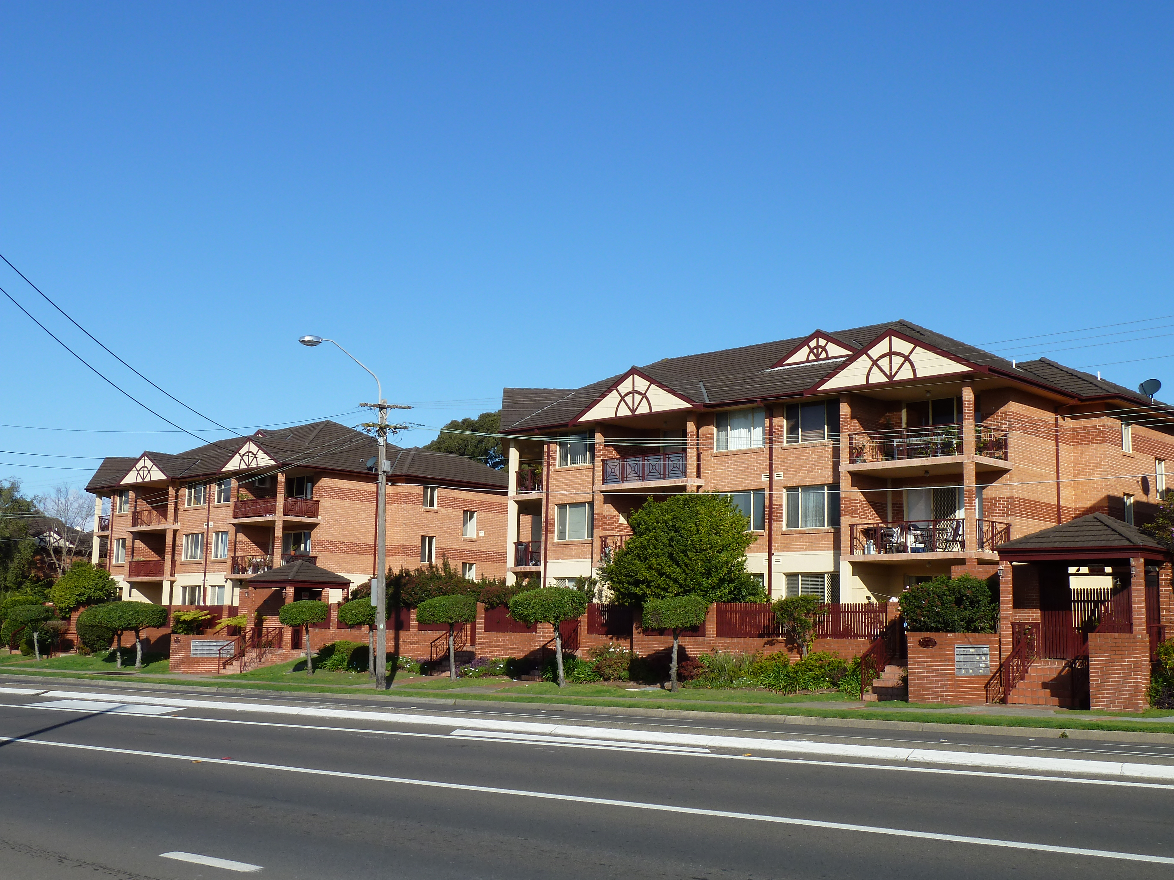 Apartments, Kingsway, Miranda, New South Wales, Australia.